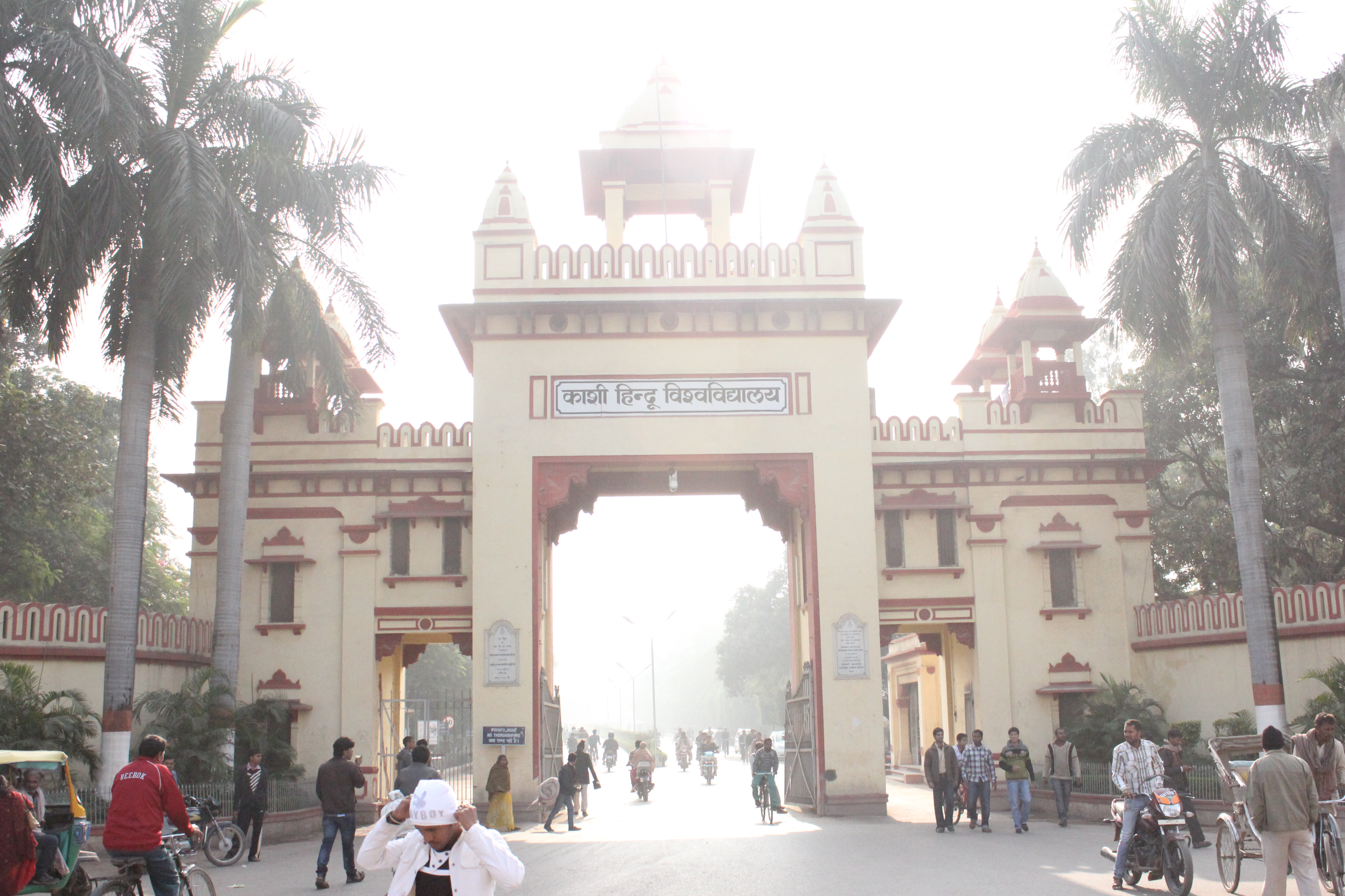 Main gate of Benaras Hindu University.